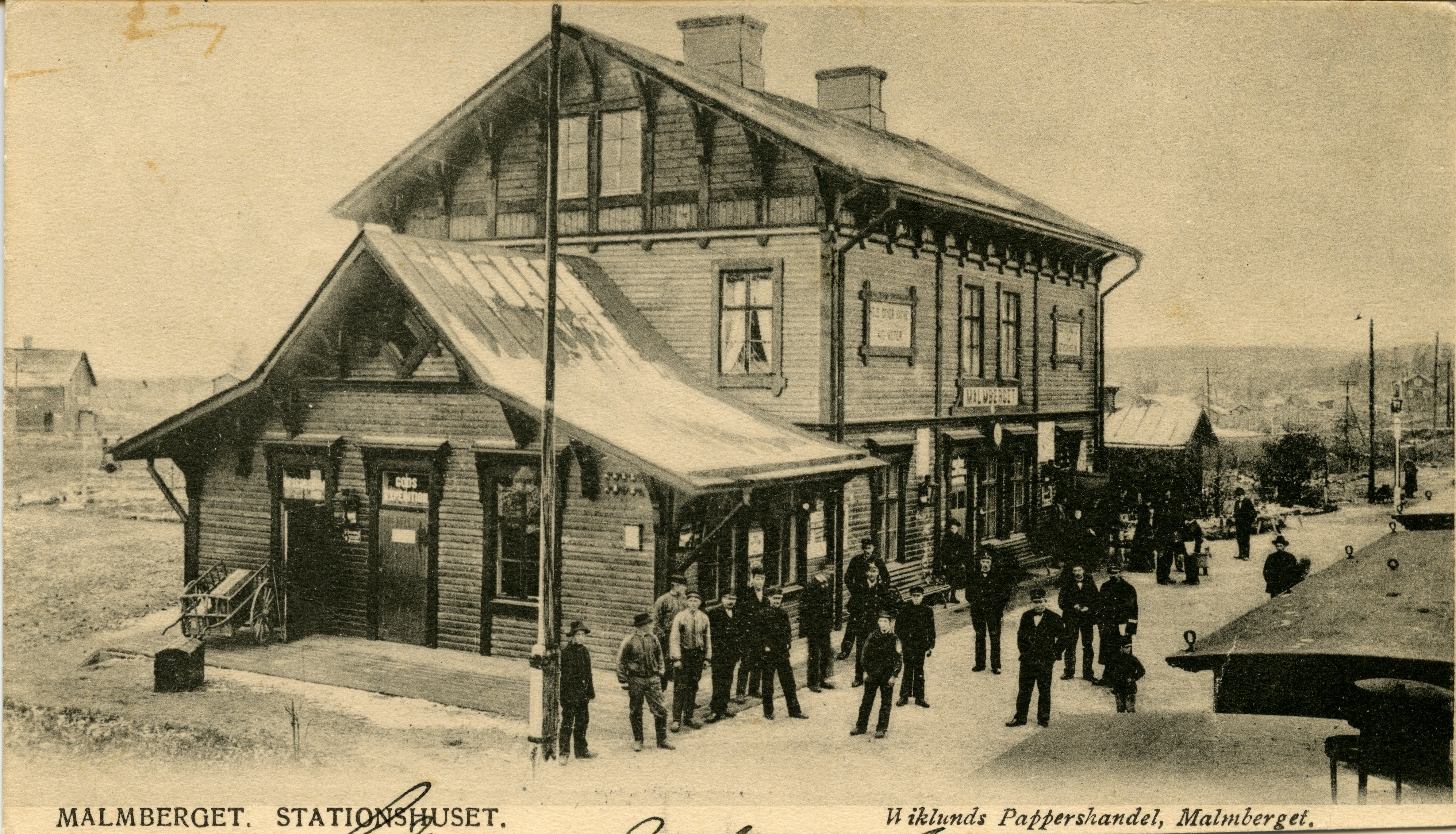 The train station in Malmberget